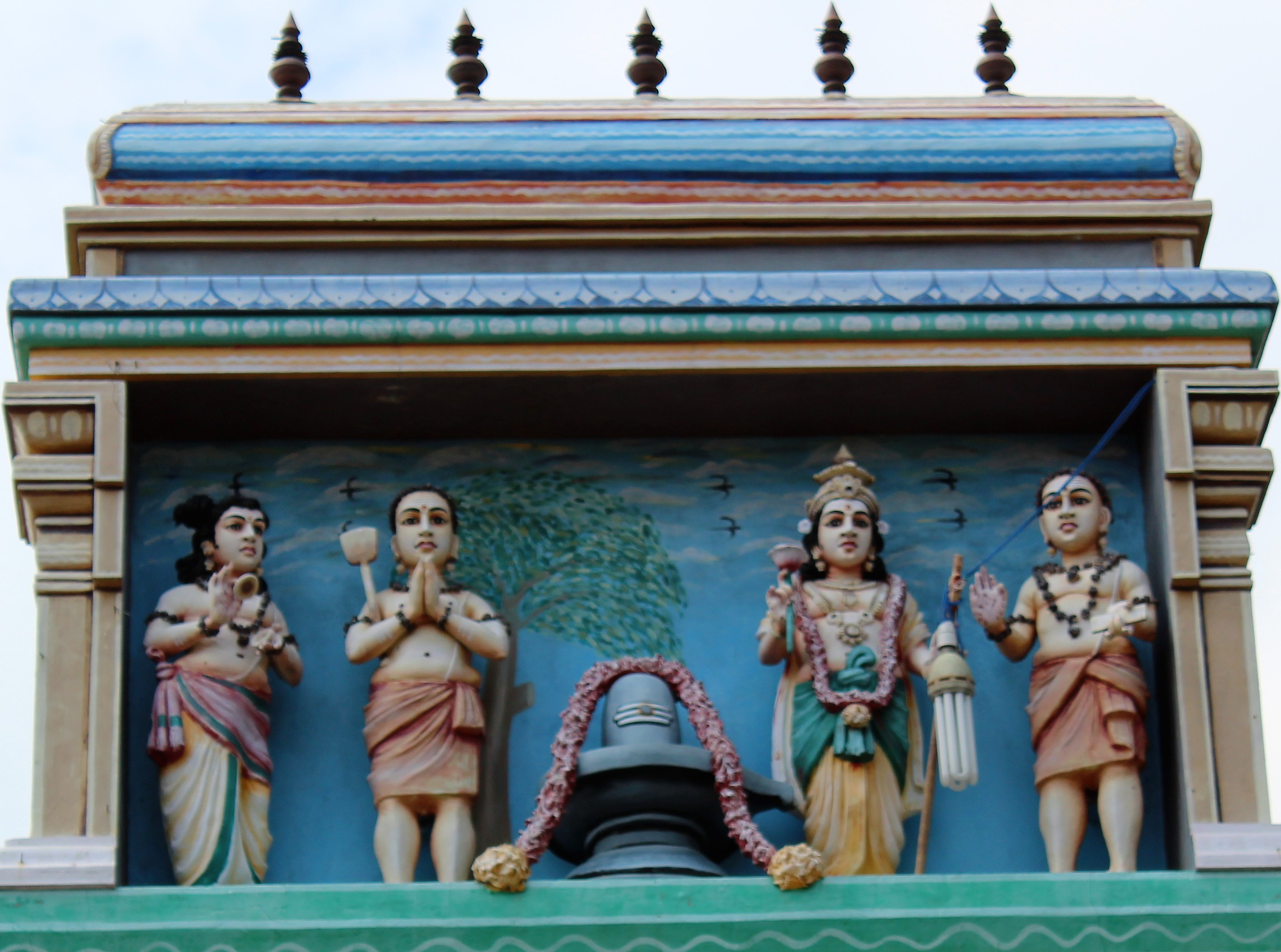 Brahmapureeswarar temple, Thirukadayur Mayanam, Thirumeignanam,Thirukanur mayanam